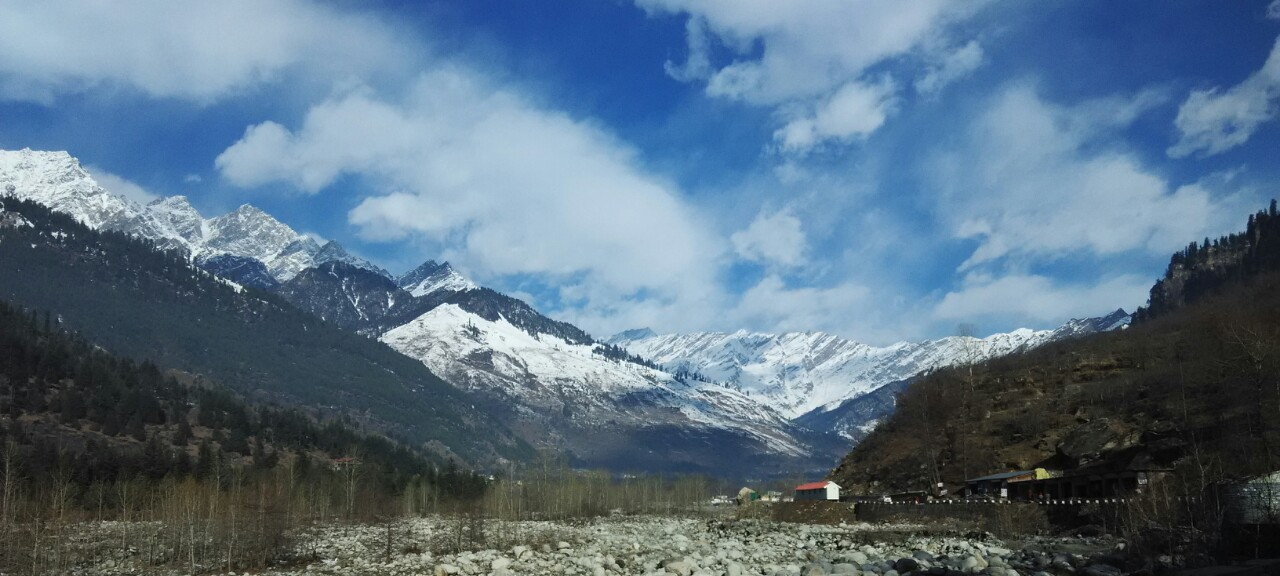 manali at peak time of snowfall